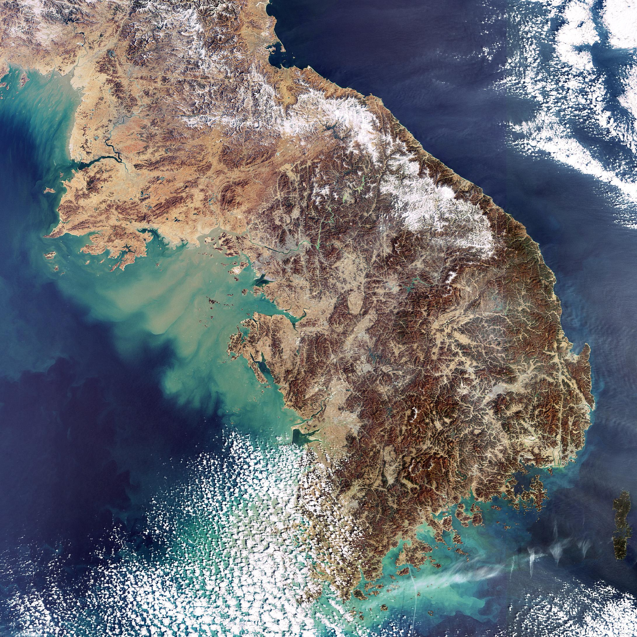 The Korean Peninsula, highlighted in this Envisat image acquired on 11 February 2007, is divided into two countries – the Democratic People's Republic of Korea (North Korea) and the Republic of Korea (South Korea). North Korea's capital, Pyongyang, is located on the Taedong River (the dark blue body of water seen emptying into the Yellow Sea in the upper left hand of the image). The capital of South Korea, Seoul, can be seen in light green just off the western coast in the northwest of the country.